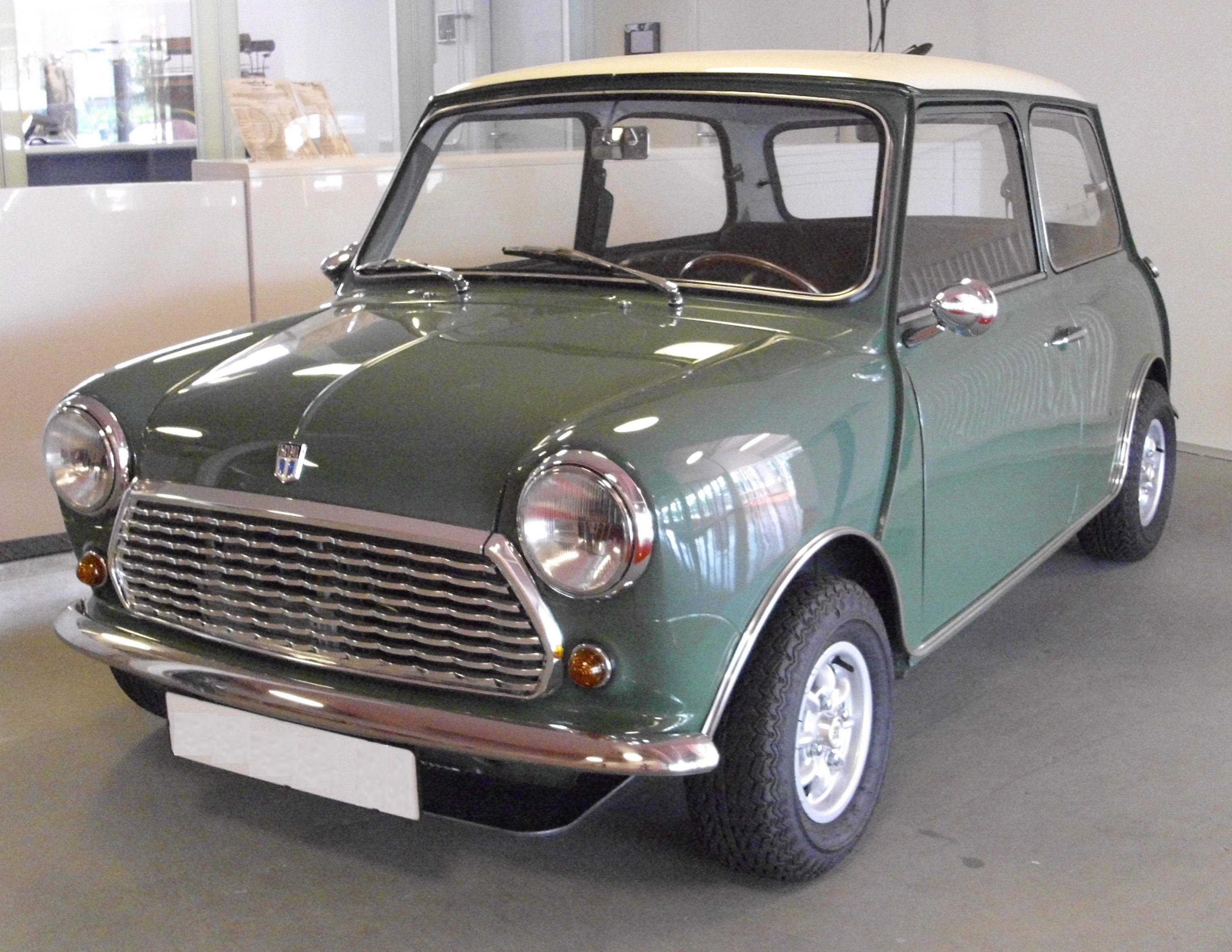 Authi Mini Cooper 1973